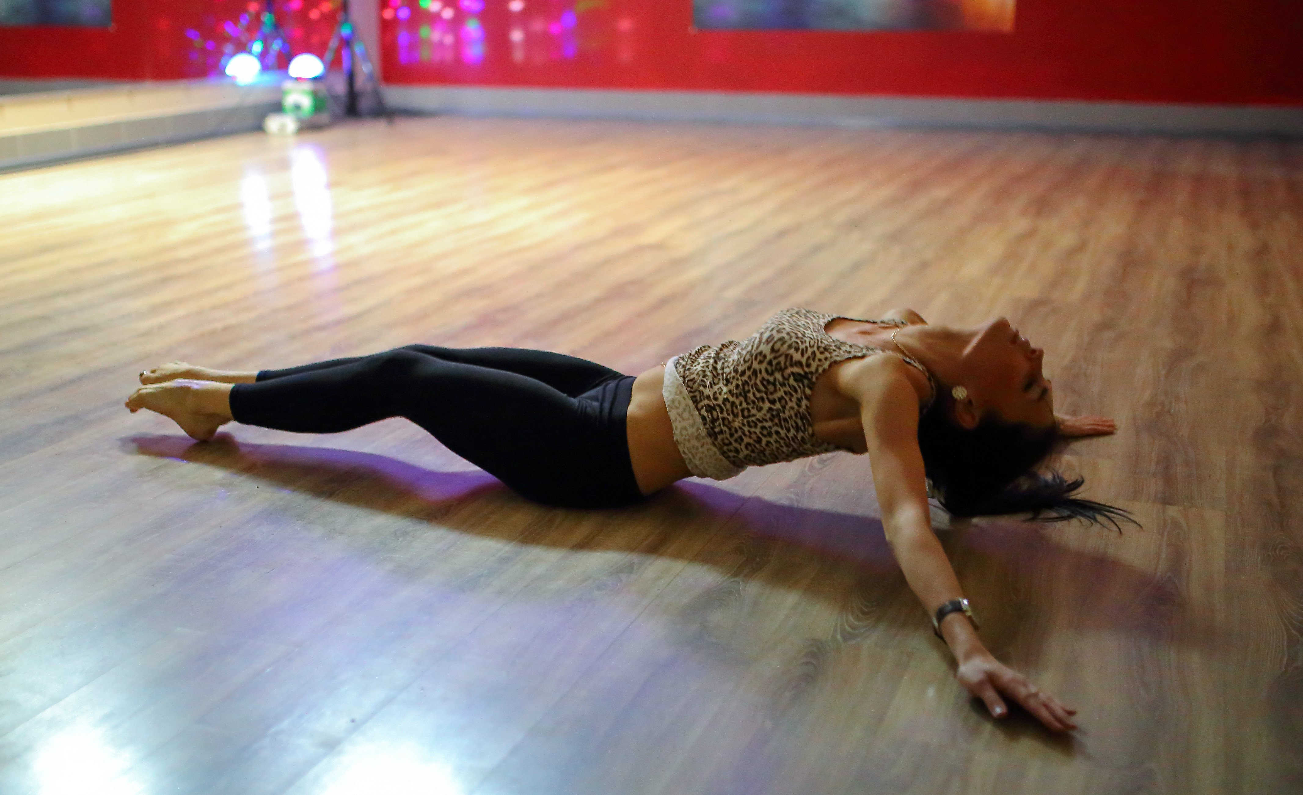 Woman on the floor wearing a tank top and leggings.